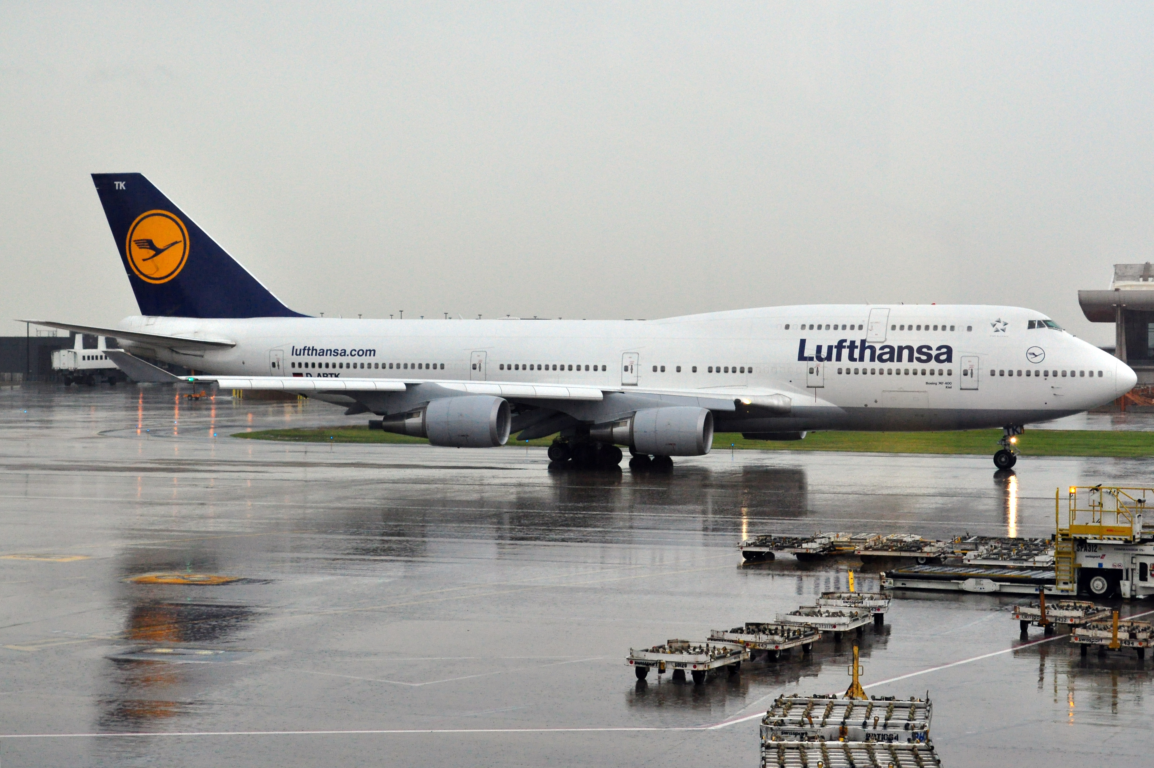 MSN 29871 B747-430 LUFTHANSA IAD